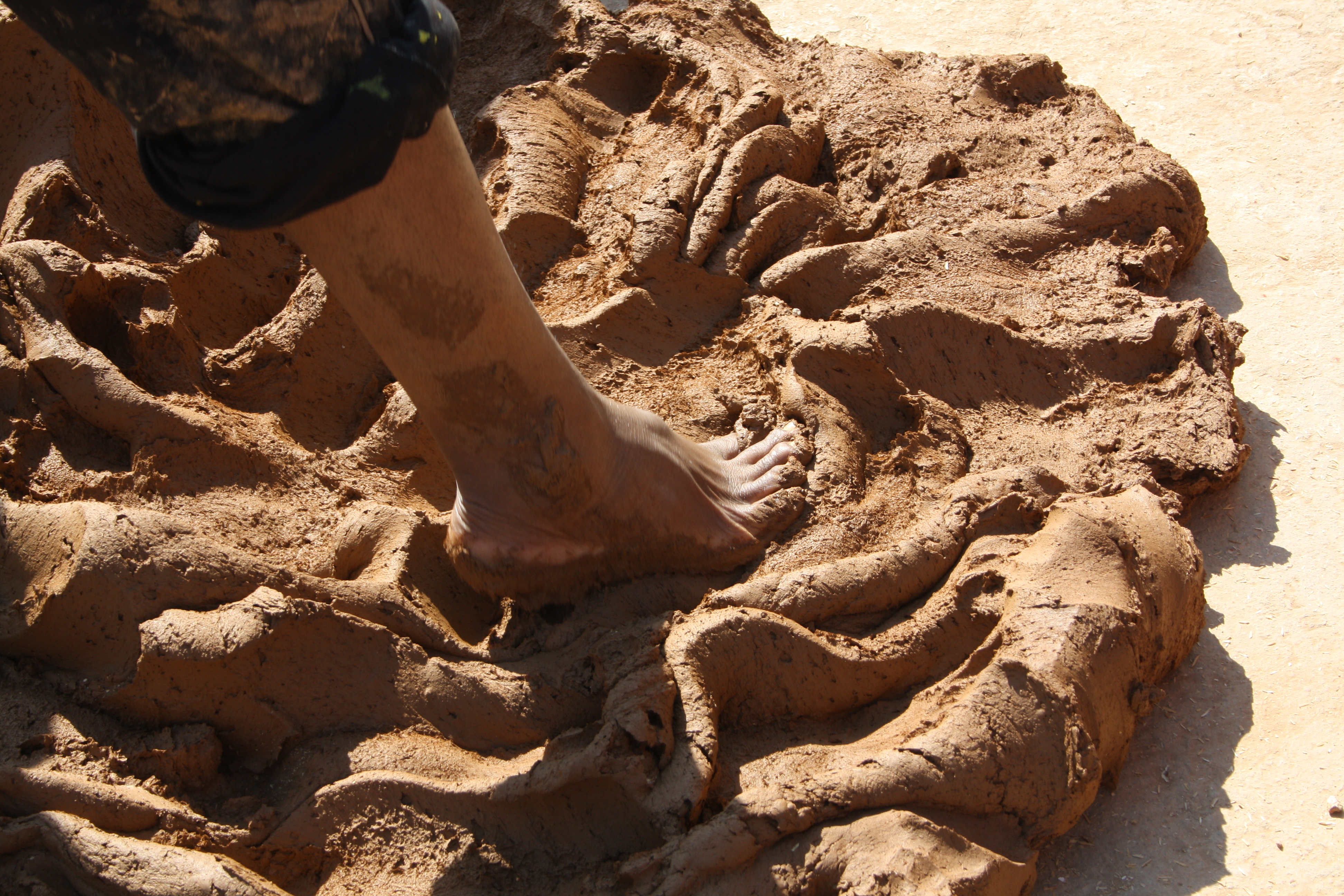 Preparing Clay sand for pottery